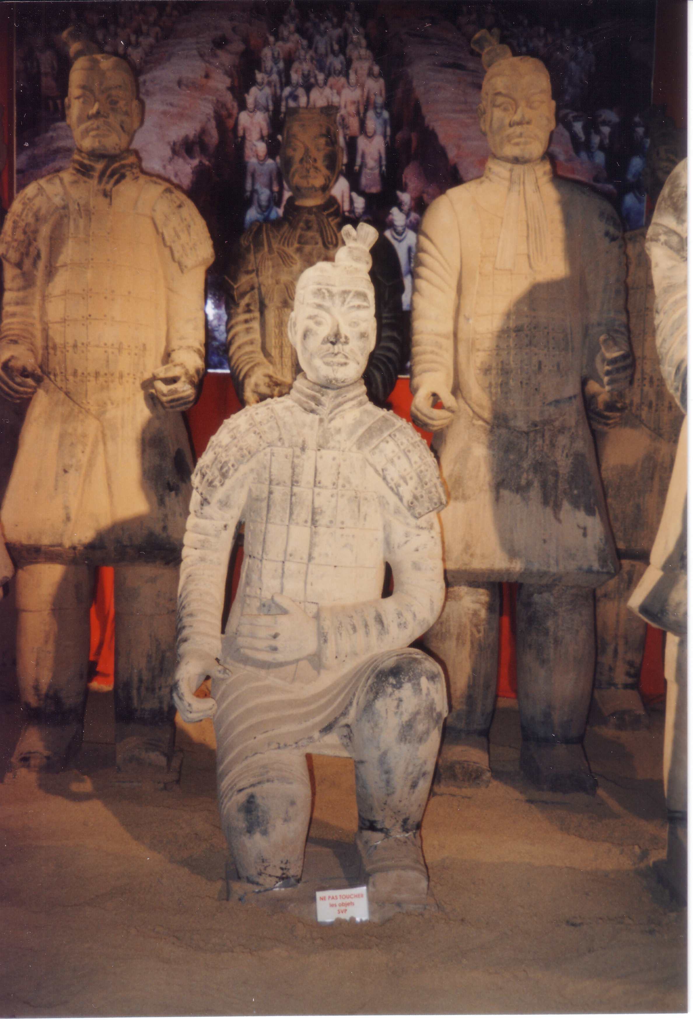 Soldiers of the terrakotta army on an exposition in Toulouse.